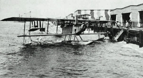 U.S. Navy Curtiss N-9 floatplanes at Naval Air Station Pensacola, Florida (USA), in 1918.